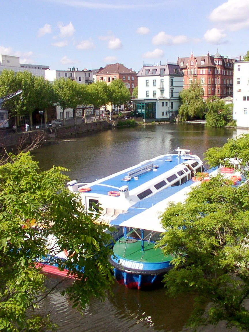 The Bille Harbor in the center of Hamburg-Bergedorf, Germany